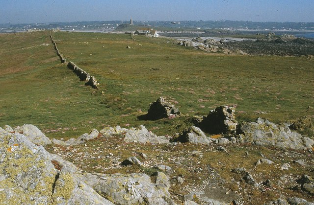 Remains of wall, Lihou. From the western edge of the island, looking across it. Further along the line of the wall are the remains of an C11 priory taken down on the orders of the Governor of Guernsey in the C18 in case it was occupied by the French. The farmhouse, in WV2478, was built in the 1960s. On the mainland is Fort Sausmarez, an C18 Martello tower capped by a German concrete battery.